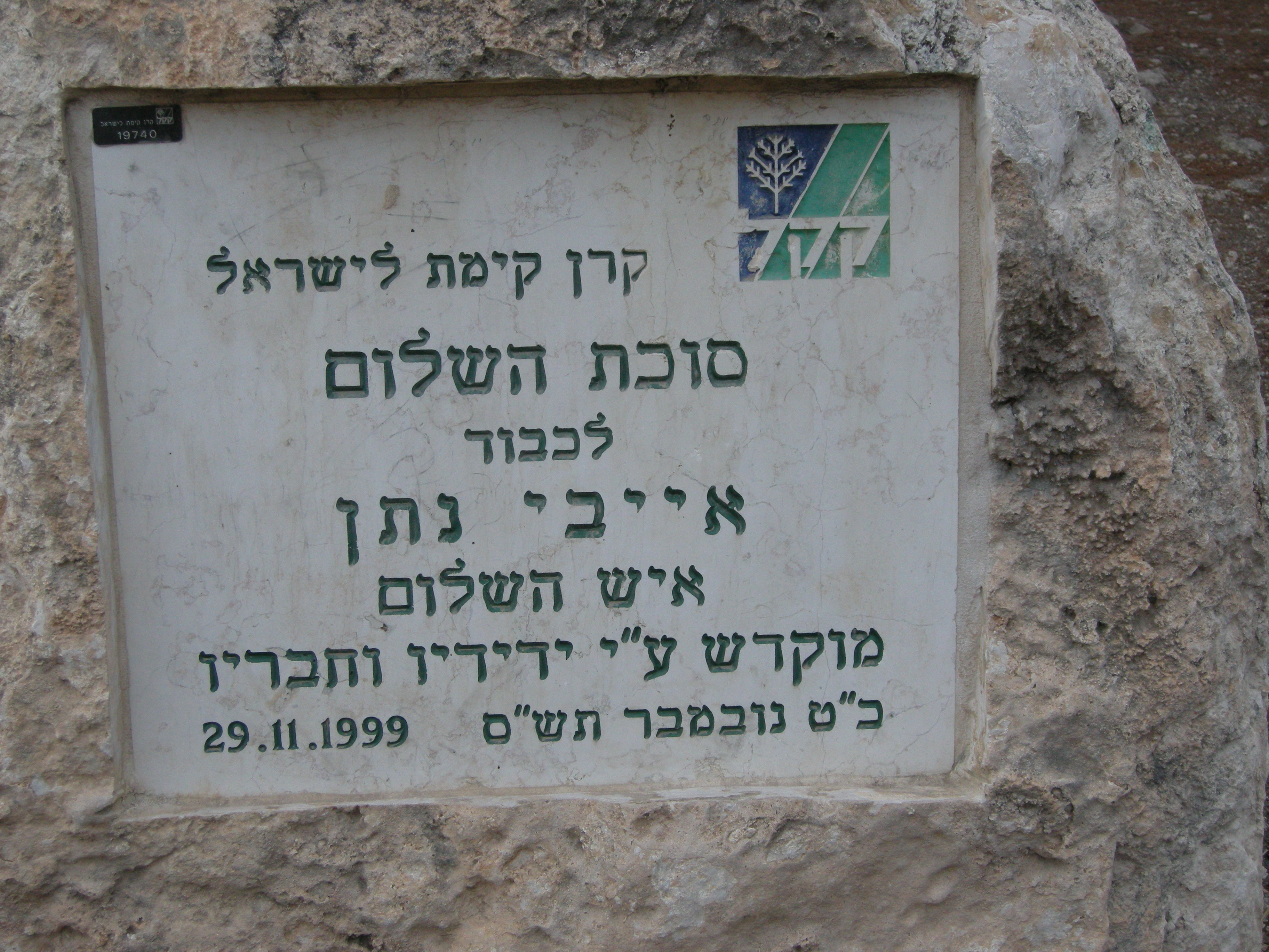 Israel National Trail - Modiin to Neve Shalom